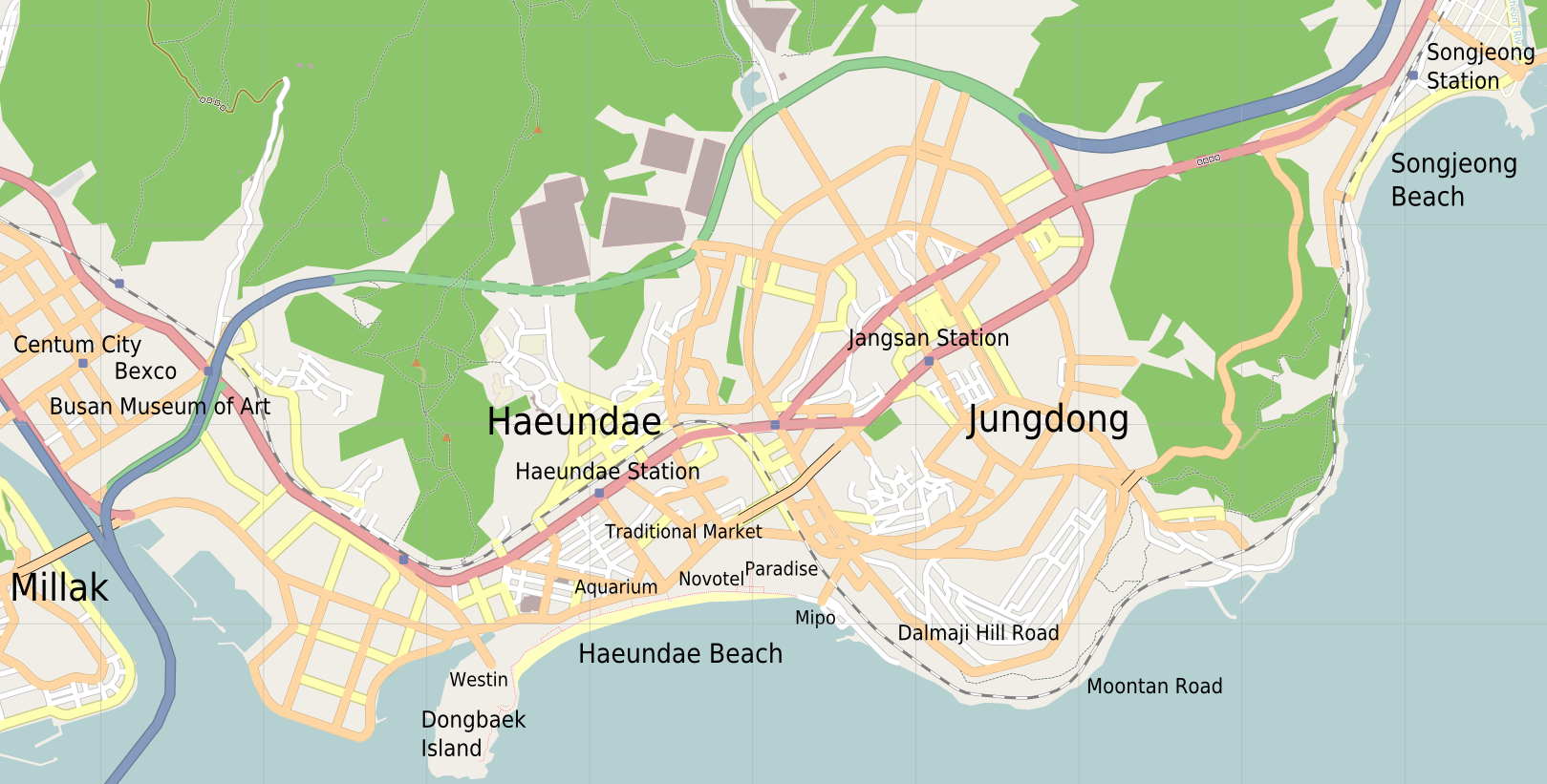 Map of Haeundae, Busan Map of Haeundae, Busan city, Republic of Korea(South Korea) This map may be incomplete, and may contain errors. Don't rely solely on it for navigation.